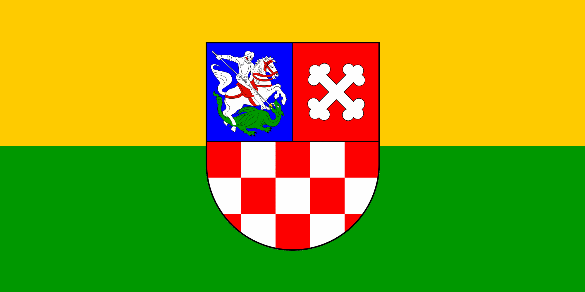 Official flag of the Bjelovar-Bilogorska zupanija in Croatia. As official government symbol, not subject to copyright. Taken from